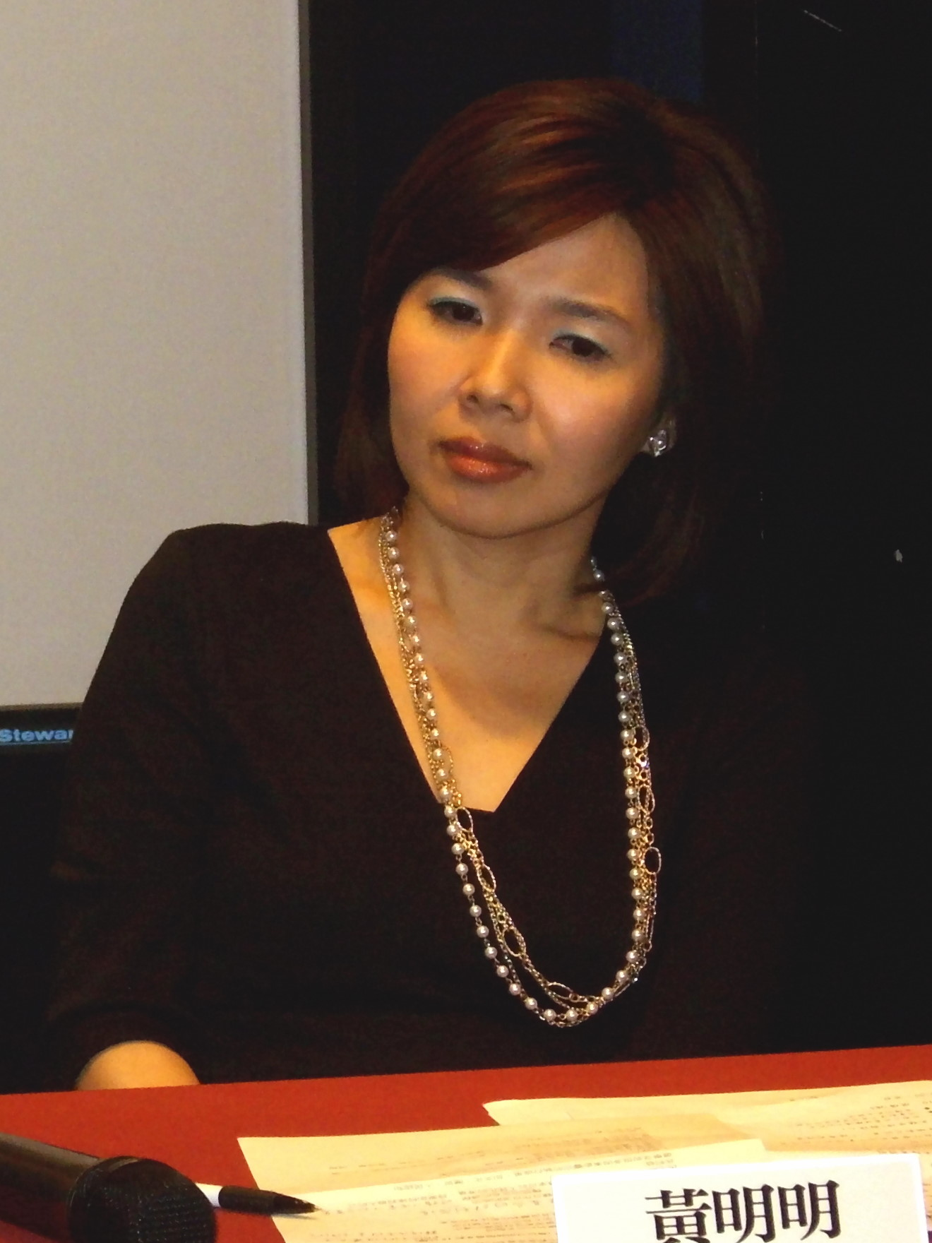 Ming-ming Huang (Anchor of Public Television Service Taiwan) at "Why Democracy?" Movie Launch Seminar.公共電視文化事業基金會新聞部主播黃明明，主持公共電視文化事業基金會《為什麼要民主？》首映座談會